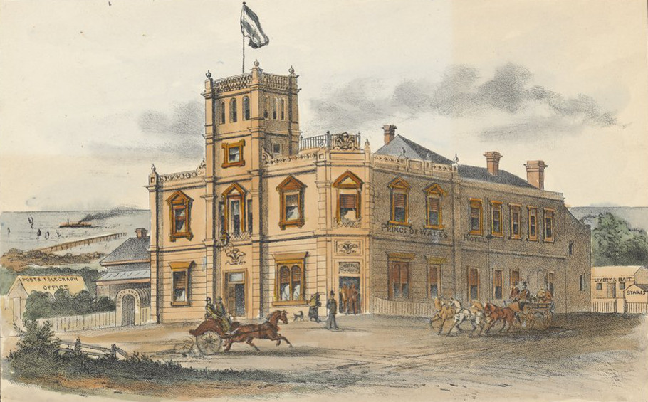 Lithograph of the former Prince of Wales Hotel in Frankston (on the southwest corner of what is now Davey Street and Nepean Highway) in 1890 by Clarence Woodhouse.